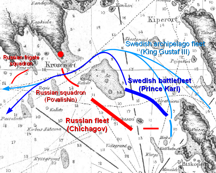 Map depicting the battle of Battle of Vyborg Bay (1790) based